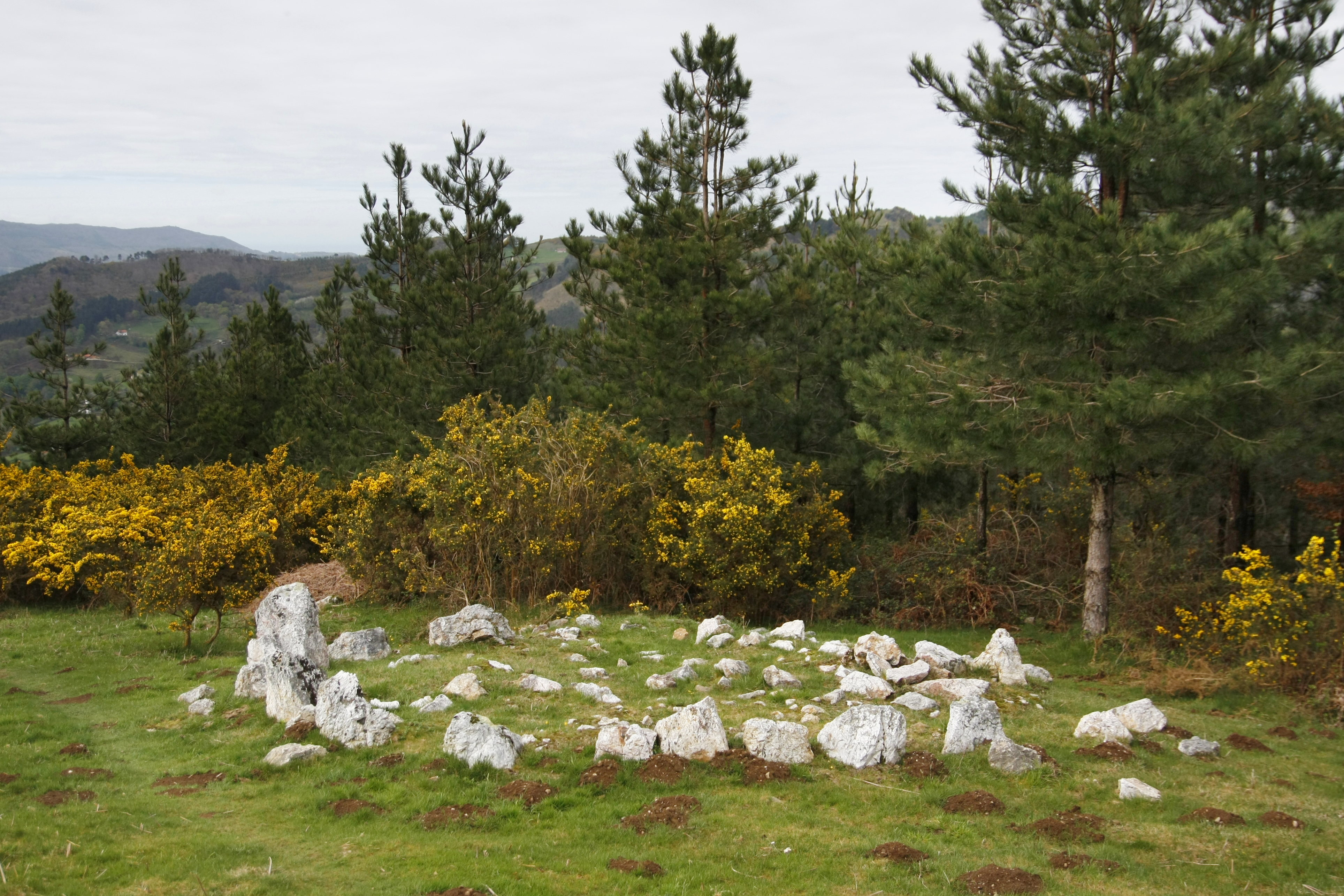 Arritxurieta cromlech.